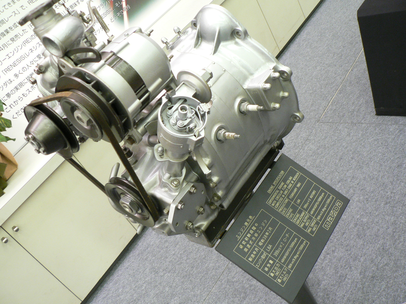 MAZDA L8A Rotary Engine